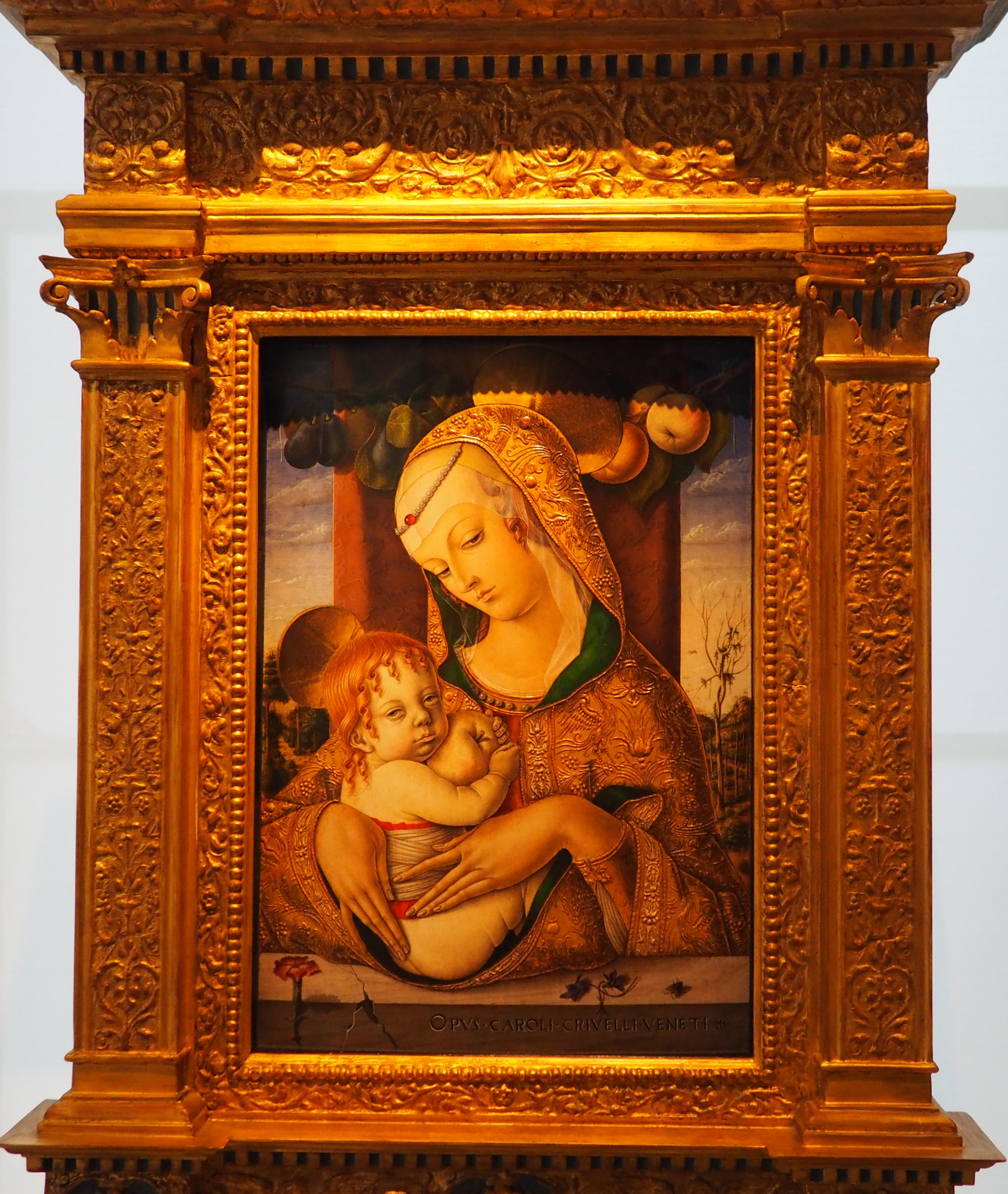 Virgin and Child